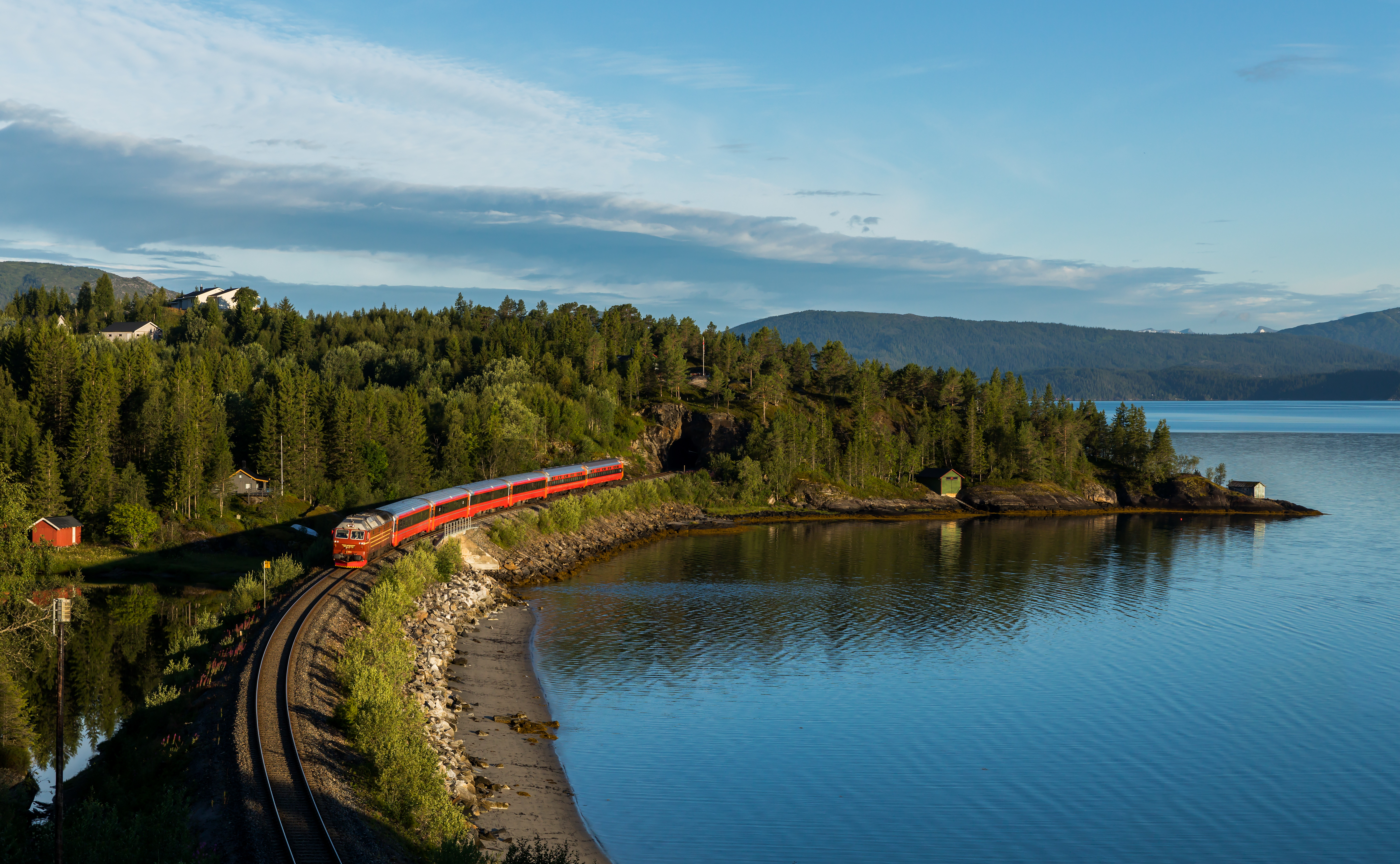 Di 4 654 with Nattog 475 Trondheim - Bodø a few minutes before arriving at Mo i Rana. Picture manipulation: Removed roof of a hut near the tracks at the bottom of the frame, removed some trees from the lower right corner.